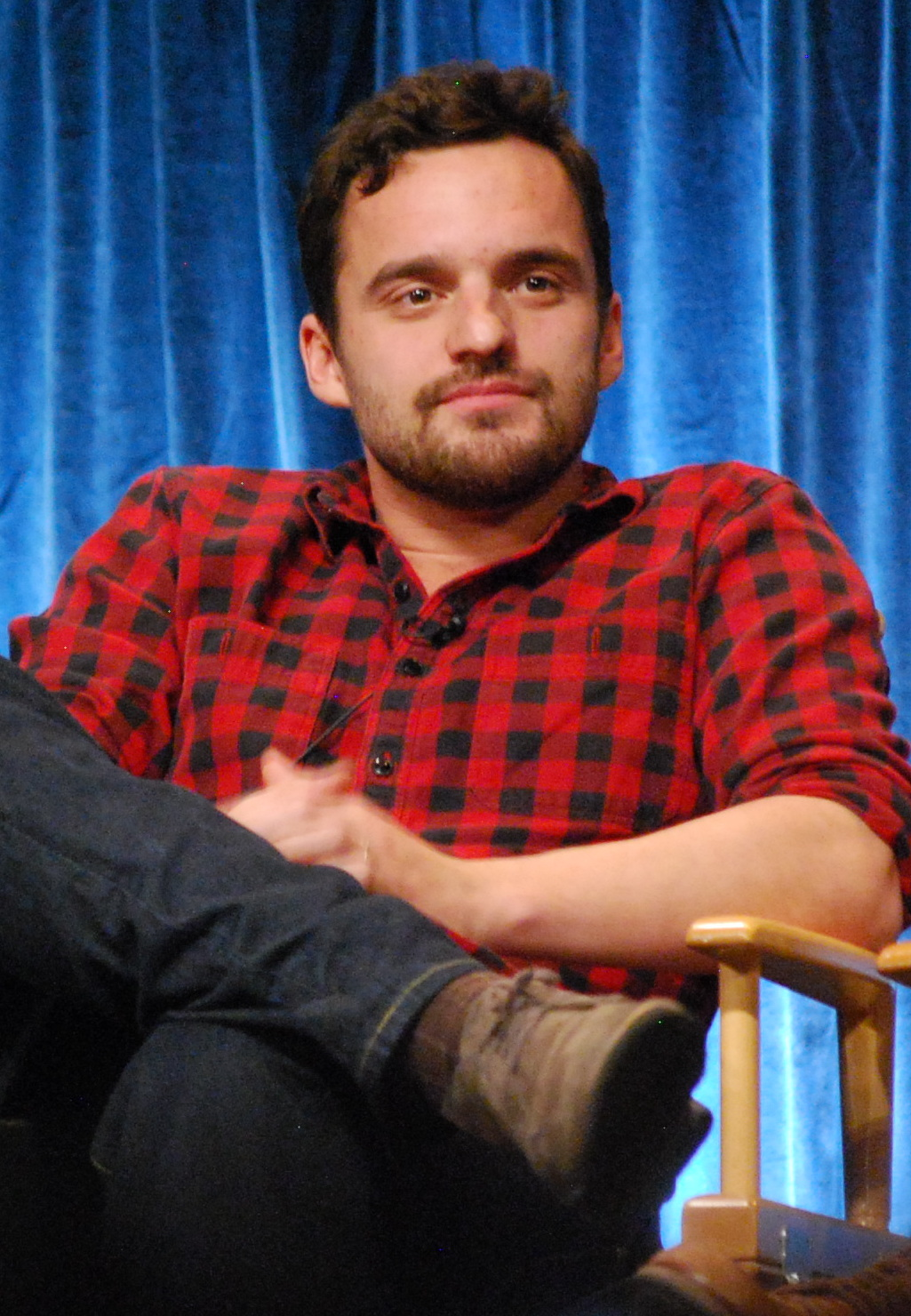 Jake Johnson at Paleyfest 2012